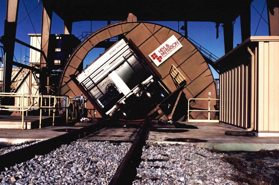 This image shows a rotary railcar dumper for unit train operations, manufactured by Heyl & Patterson Inc. of Pittsburgh, PA.